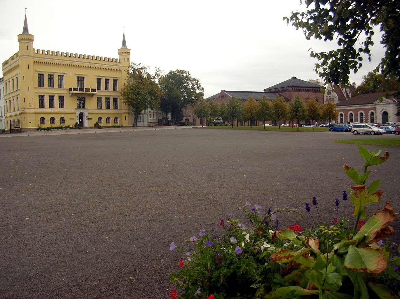 Akershus festning in Oslo (Norway)